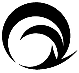 Matsubushi Saitama chapter